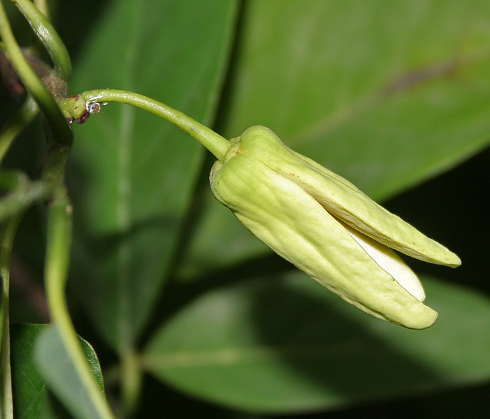 Custard-apple, sugar-apple, sweetsop, sitaphal or Sita's fruit, shareefah, aataa or Rahmapfel Annona squamosa in Hyderabad , India.